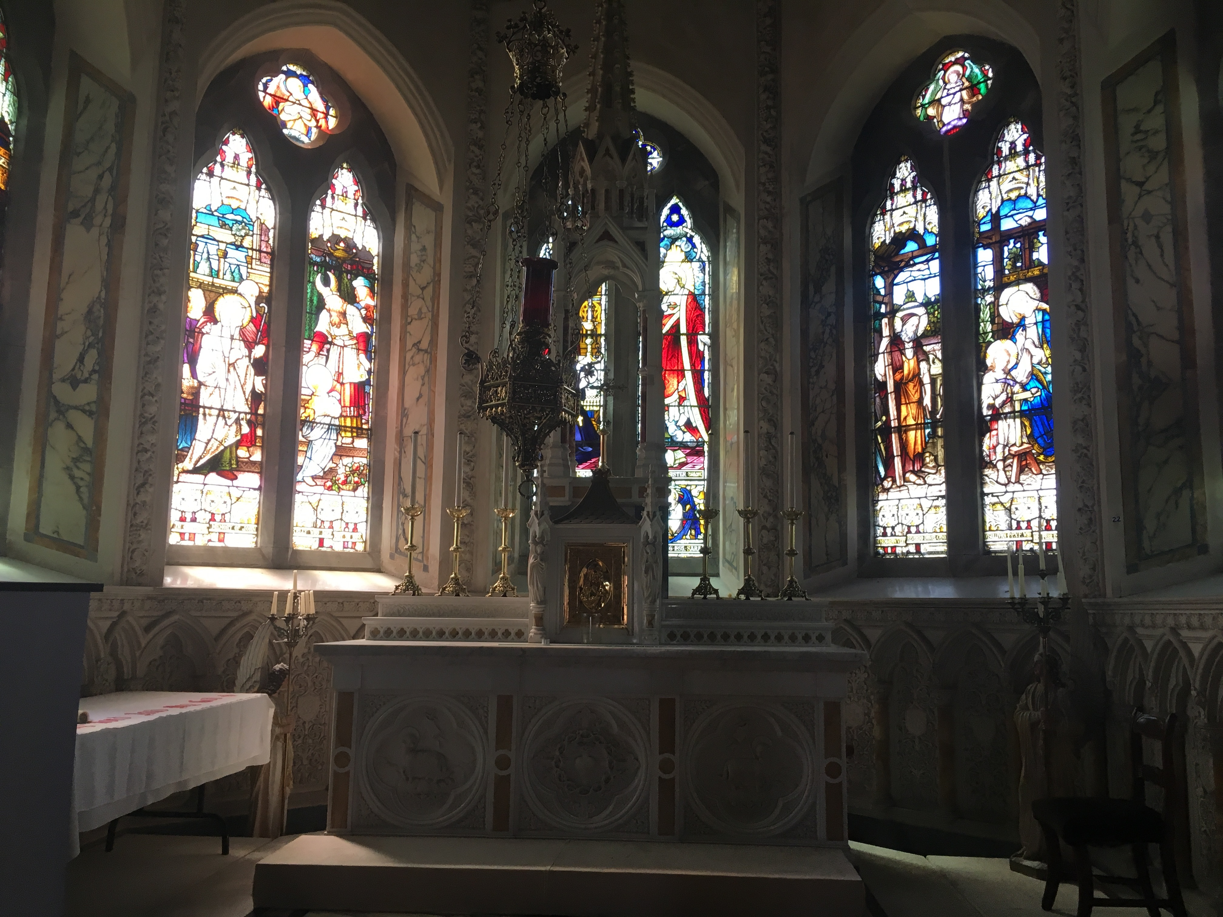 Interior showing stained glass windows designed by Harry Clarke; St Mary's Church, Dingle, Ireland